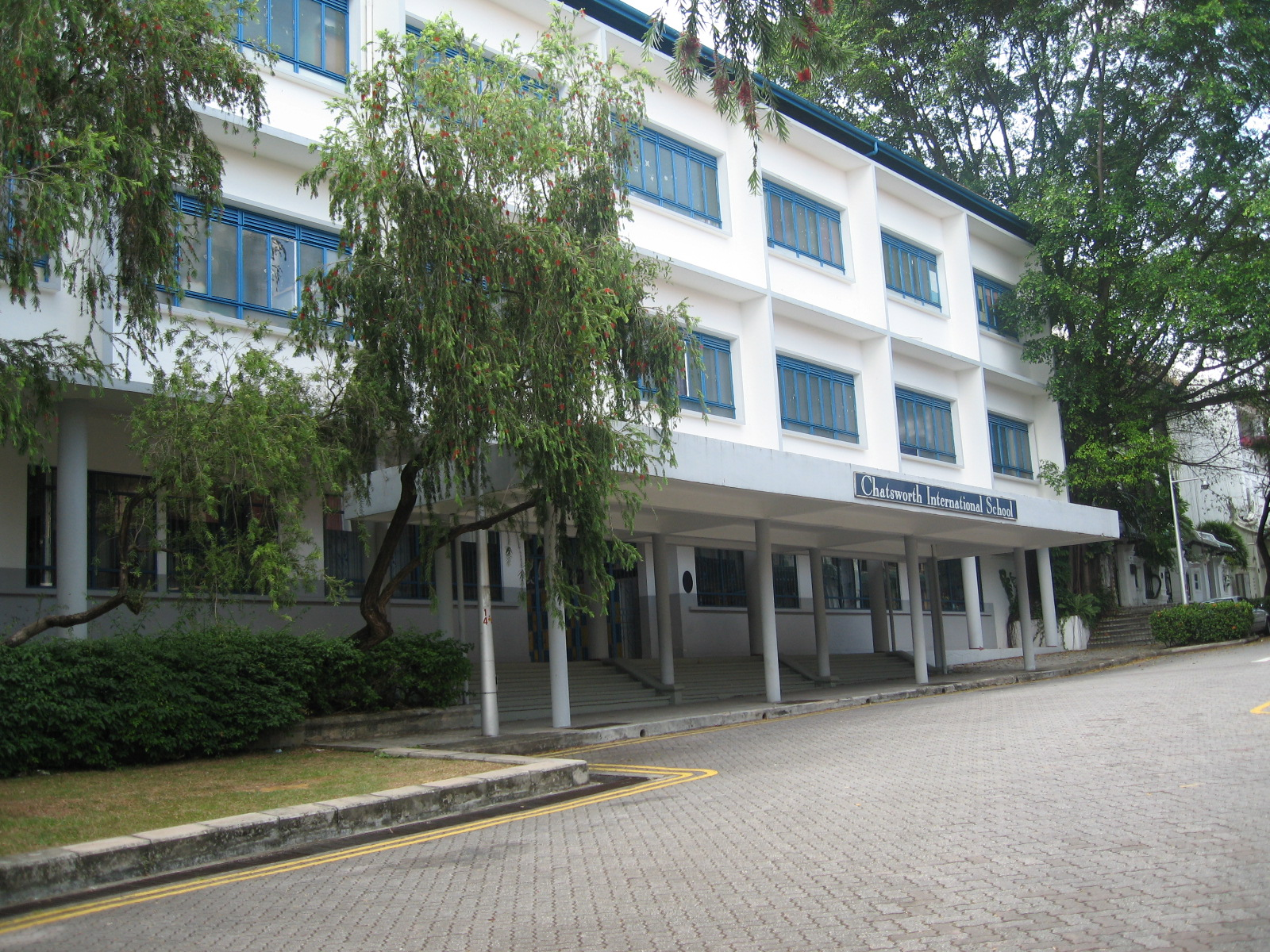 Chatsworth International School.